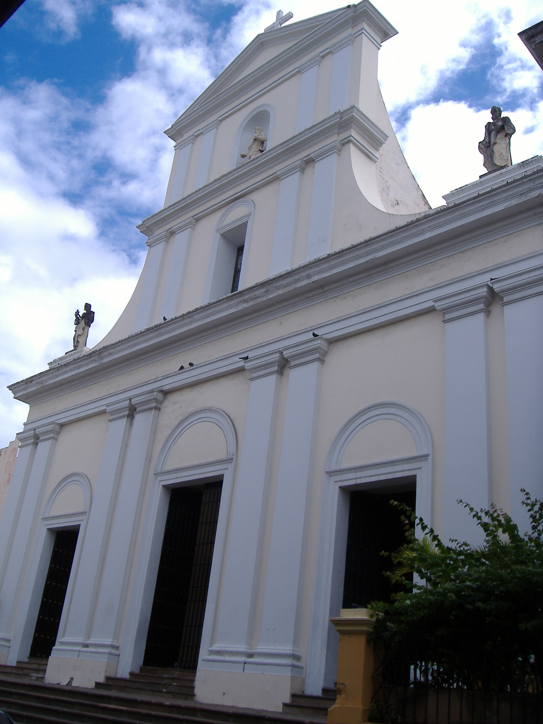 Front view of the San Juan Cathedral in San Juan.